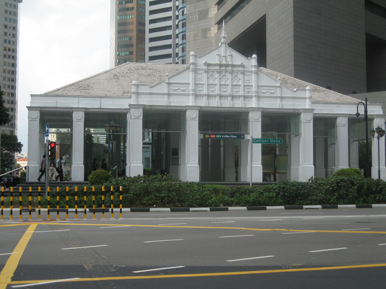 Raffles Place MRT Station.